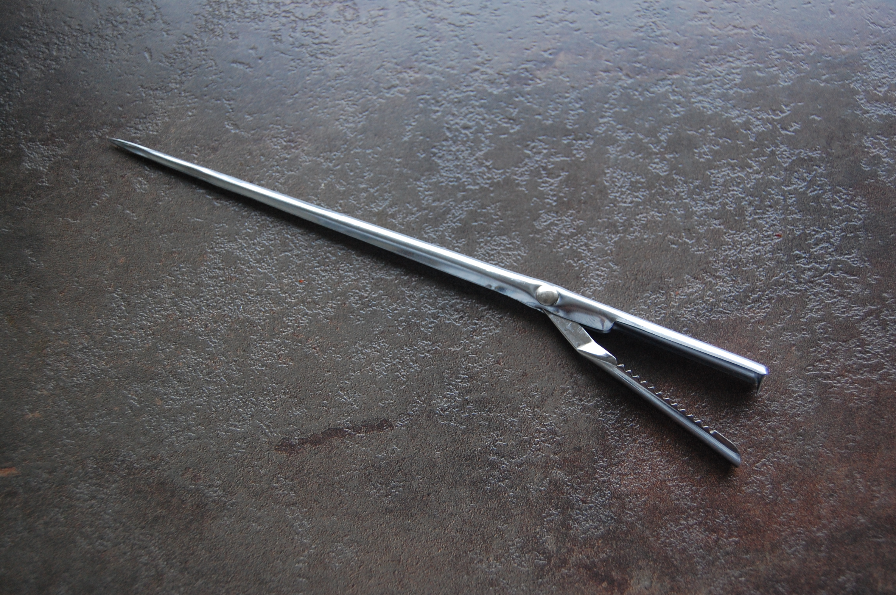 Larding needle